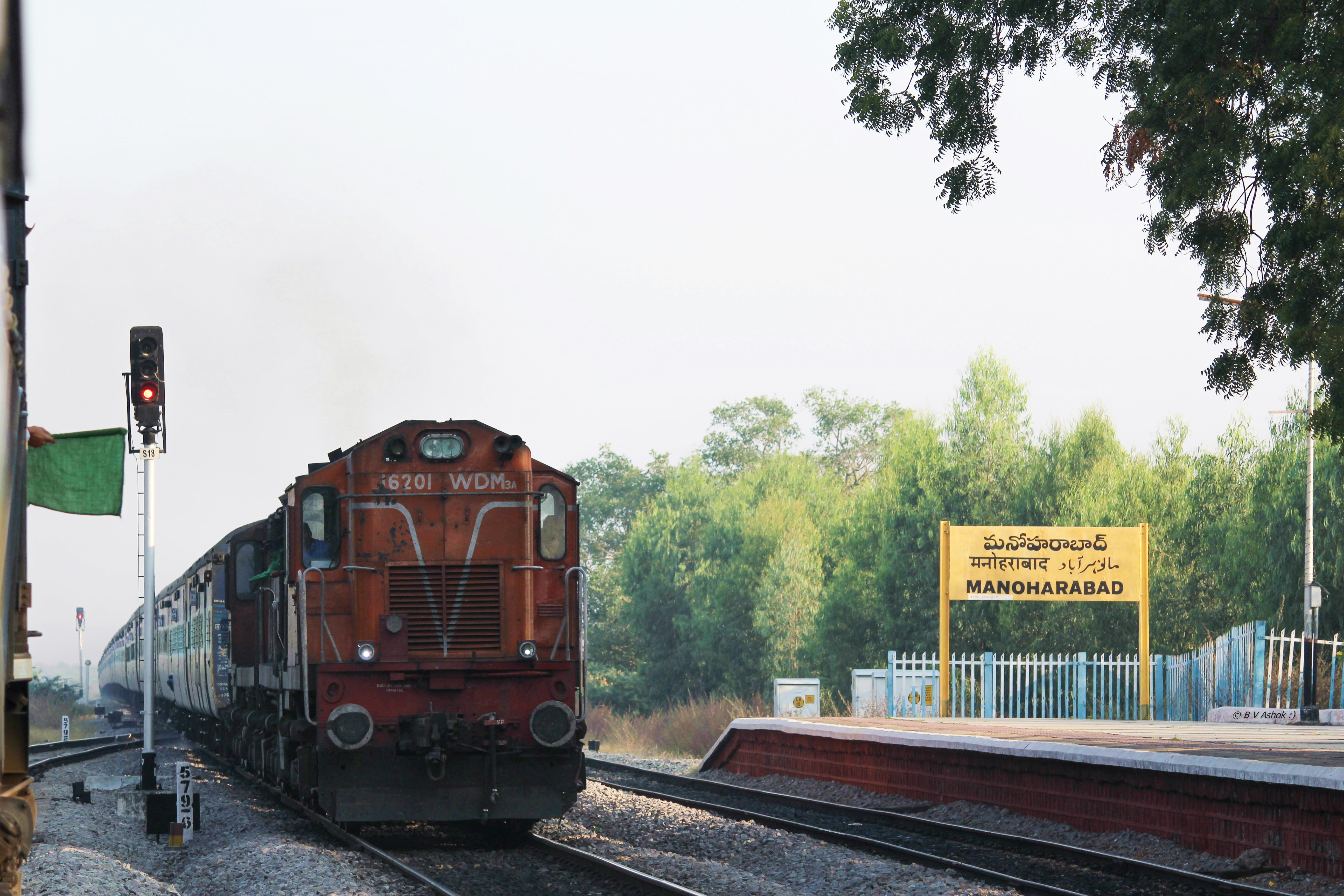 MLY WDM-3A 16201 leads the twin charge on mainline of Manoharabad for 17063 Manmad - Secunderabad Ajanta Express...